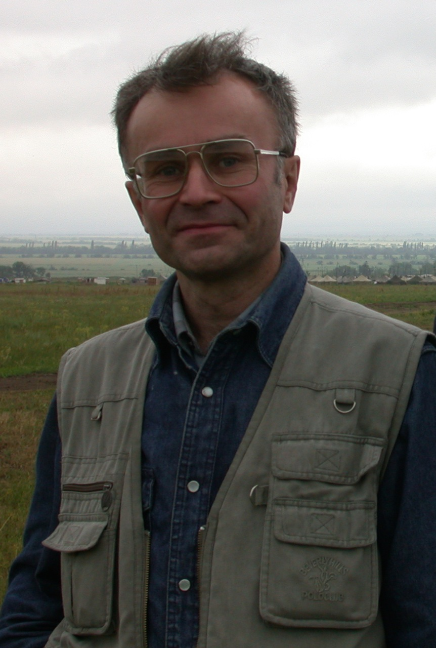 Photo of Andrei Mironov, russian human-rights activist, reporter, fixer, interpreter